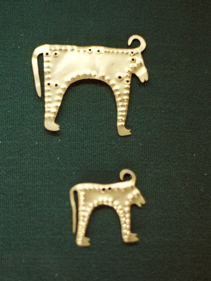 Small bulls, thin gold sheet. Burial place near Varna. Chalcolithic, 4600-4200 BC. Varna Archaeological Museum.